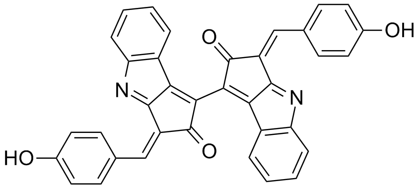 Structure of Scytonemin